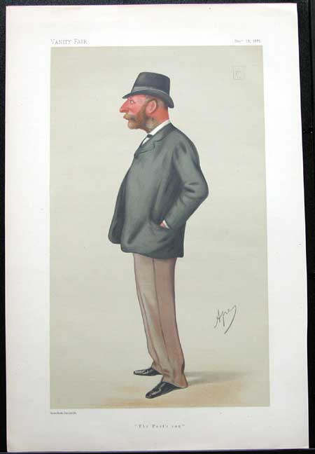 Men of the Day No.211: Caricature of Sir PF Shelley Bt. Caption reads: "The Poet's Son"